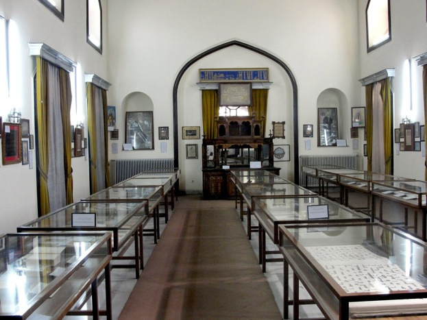 collection of calligraphy. the best museum in the city